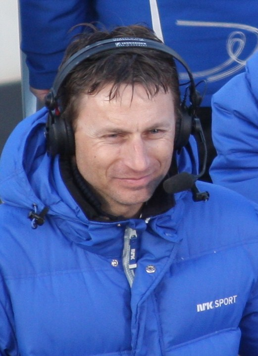 Espen Bredesen commenting WC Holmenkollen, Oslo march 2010, on behalf of Norwegian TV (NRK)